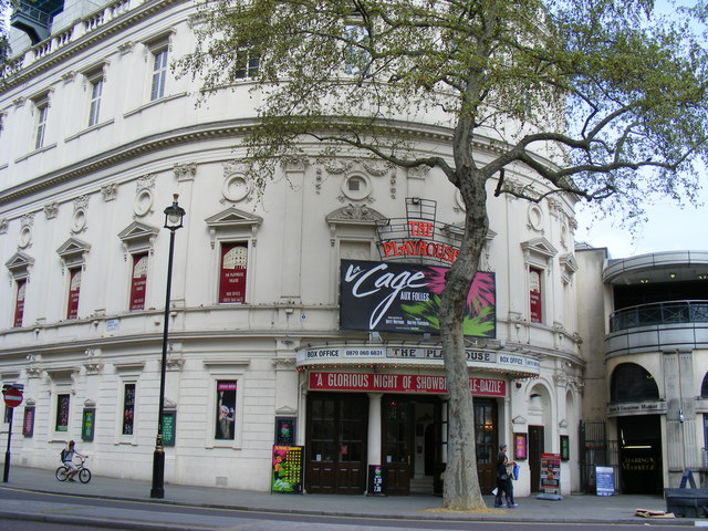 The Playhouse Northumberland Avenue Originally opened in 1882 called the Royal Avenue Theatre